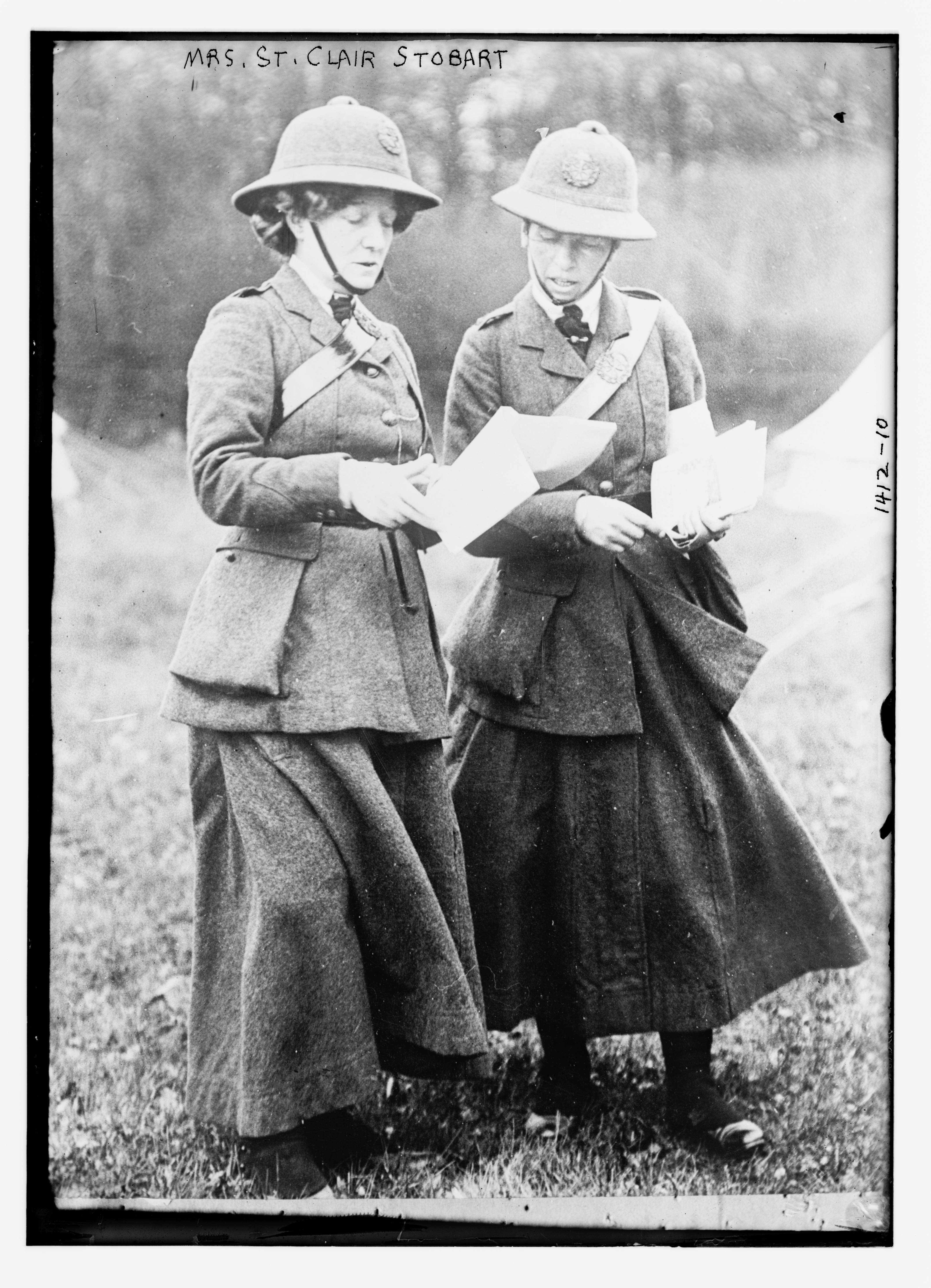 Title: Mrs. St. Clair Stobart Abstract/medium: 1 negative : glass ; 5 x 7 in. or smaller.